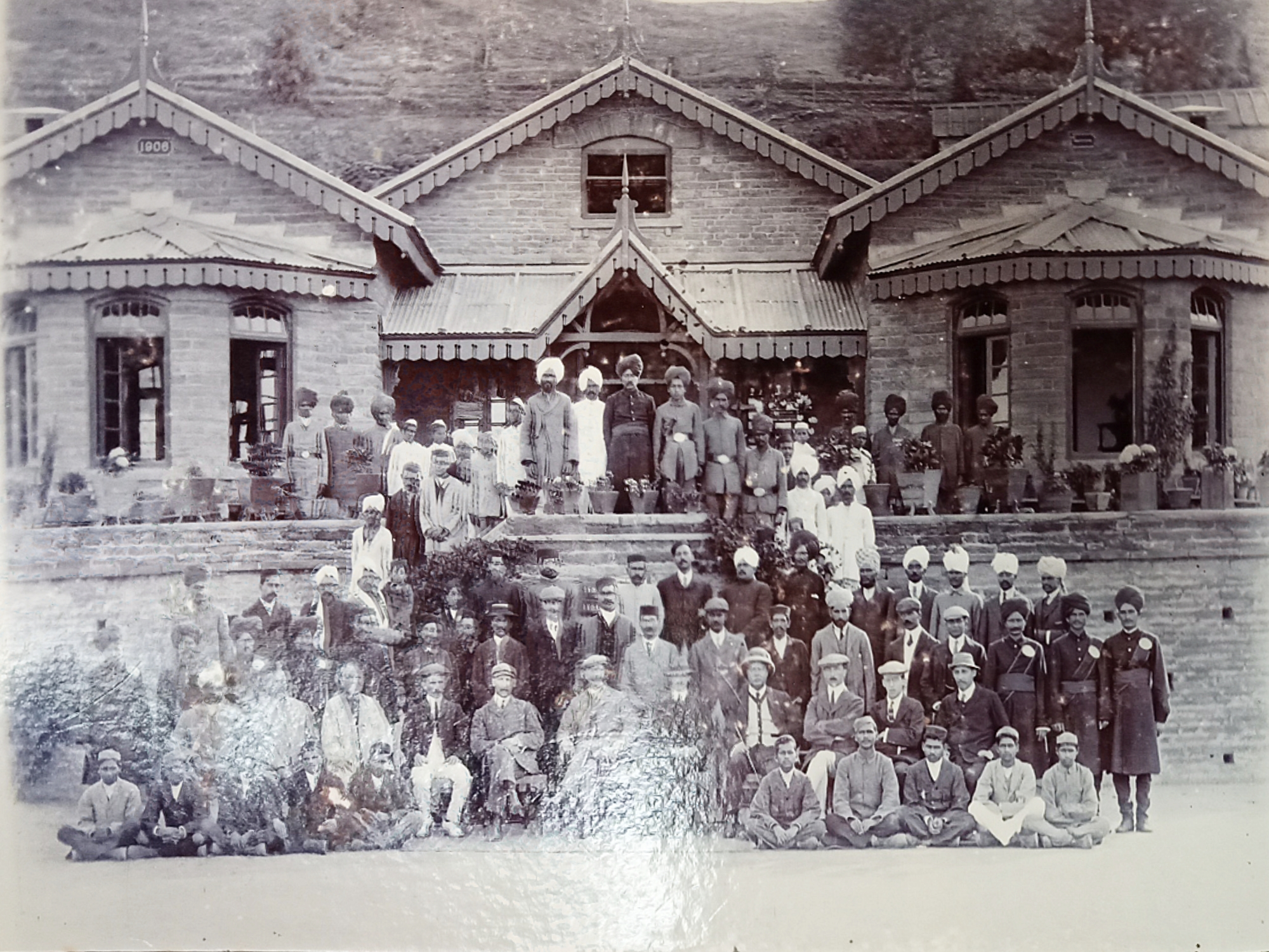 Photo from IVRI Mukteshwar archives